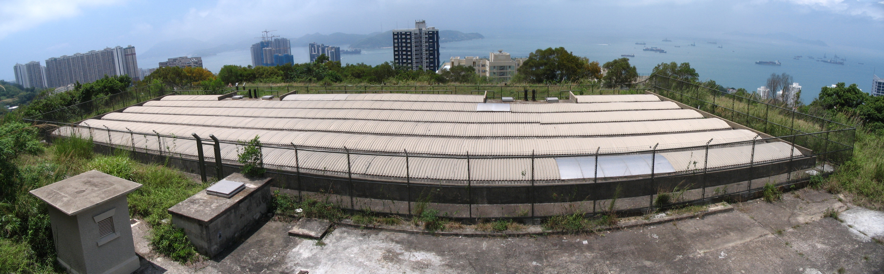 Panoramic photo of Pok Fu Lam No. 1 Service Reservoir, combined from 2464799956, 2464801600, 2464803252 and 2463972381